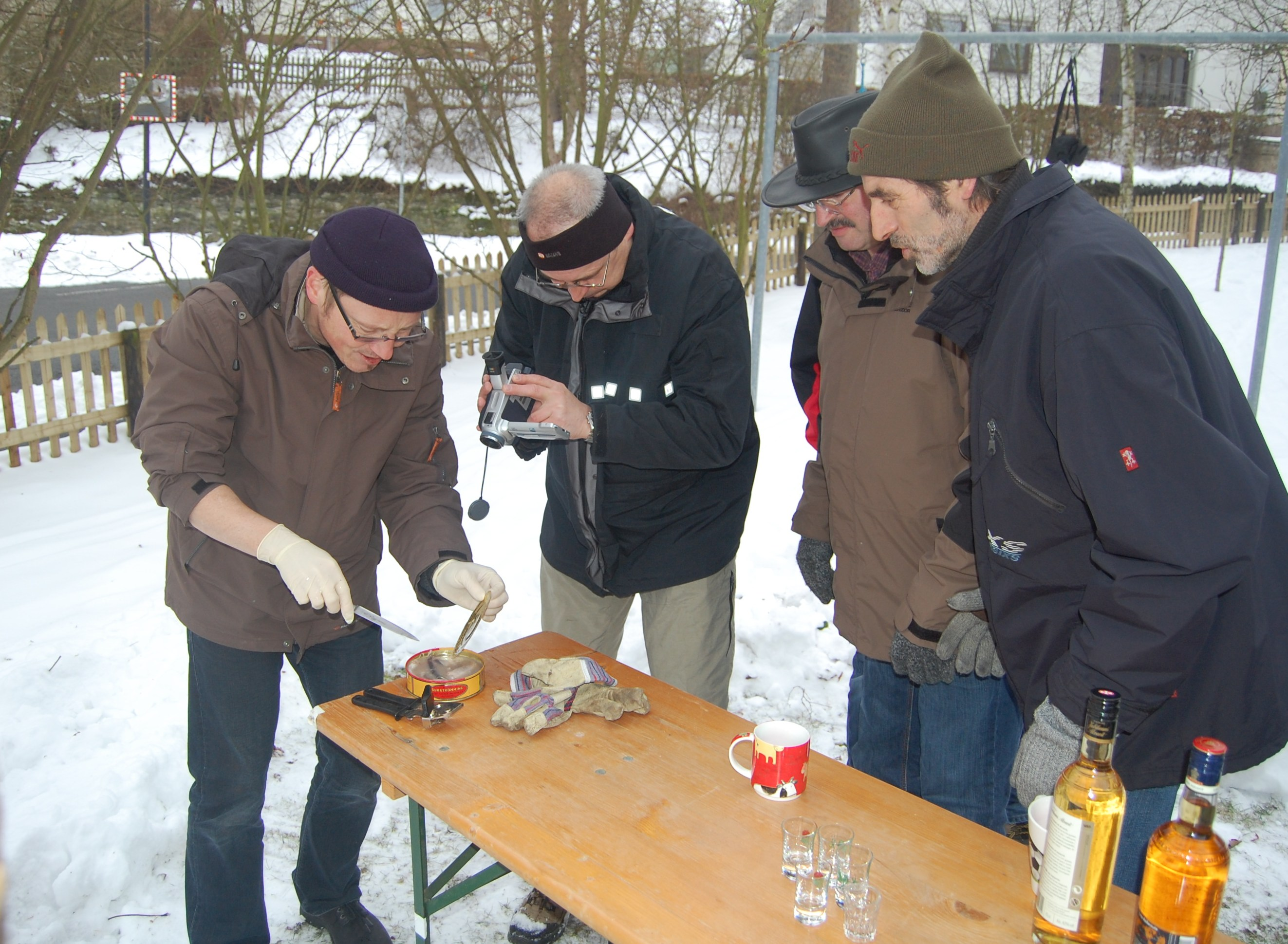 First Überbacher Surströmming Contest in Neuerkirch, Hunsrück landscape, Germany. 2010-01-16